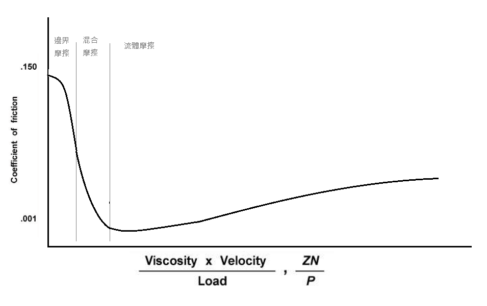 Tribology basic: Stribeck curve